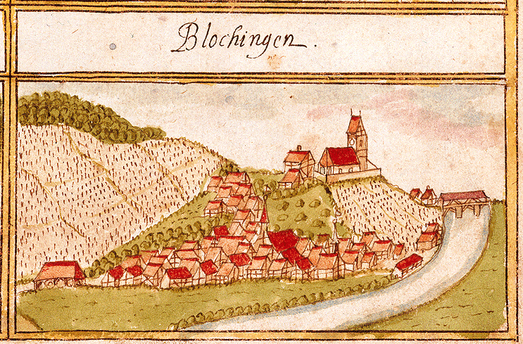 View of Plochingen from the forest register books created by Andreas Kieser